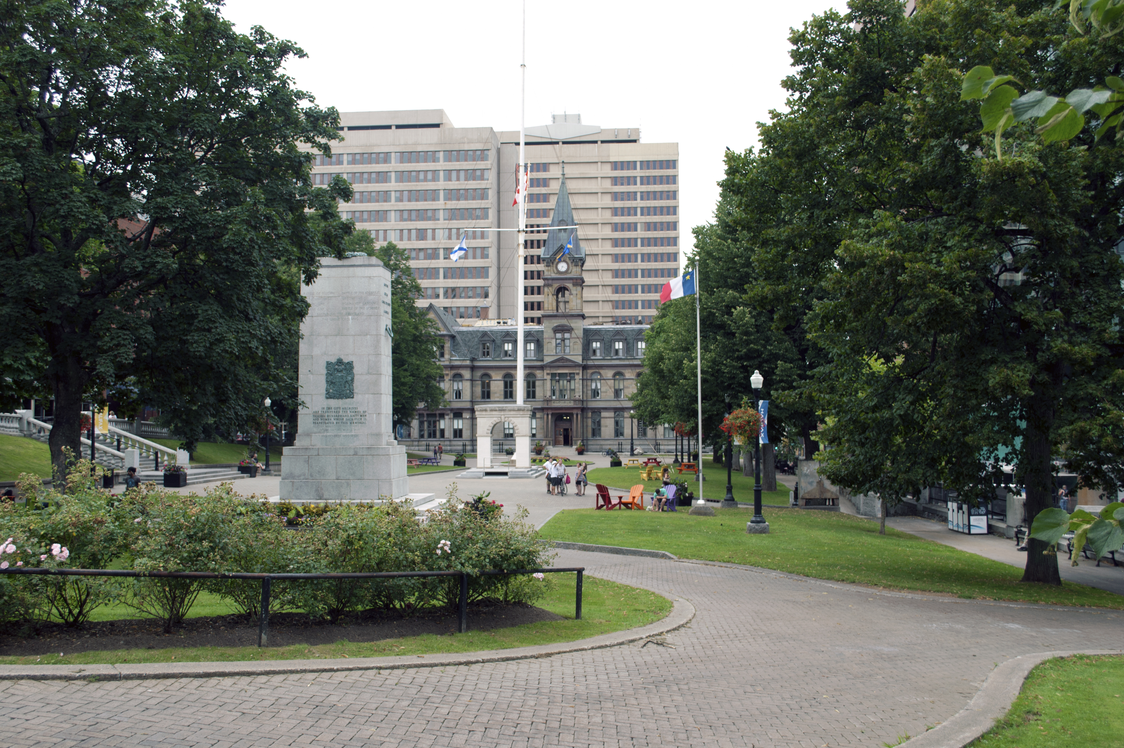 Grand Parade in Halifax, Nova Scotia looking north toward Halifax City Hall